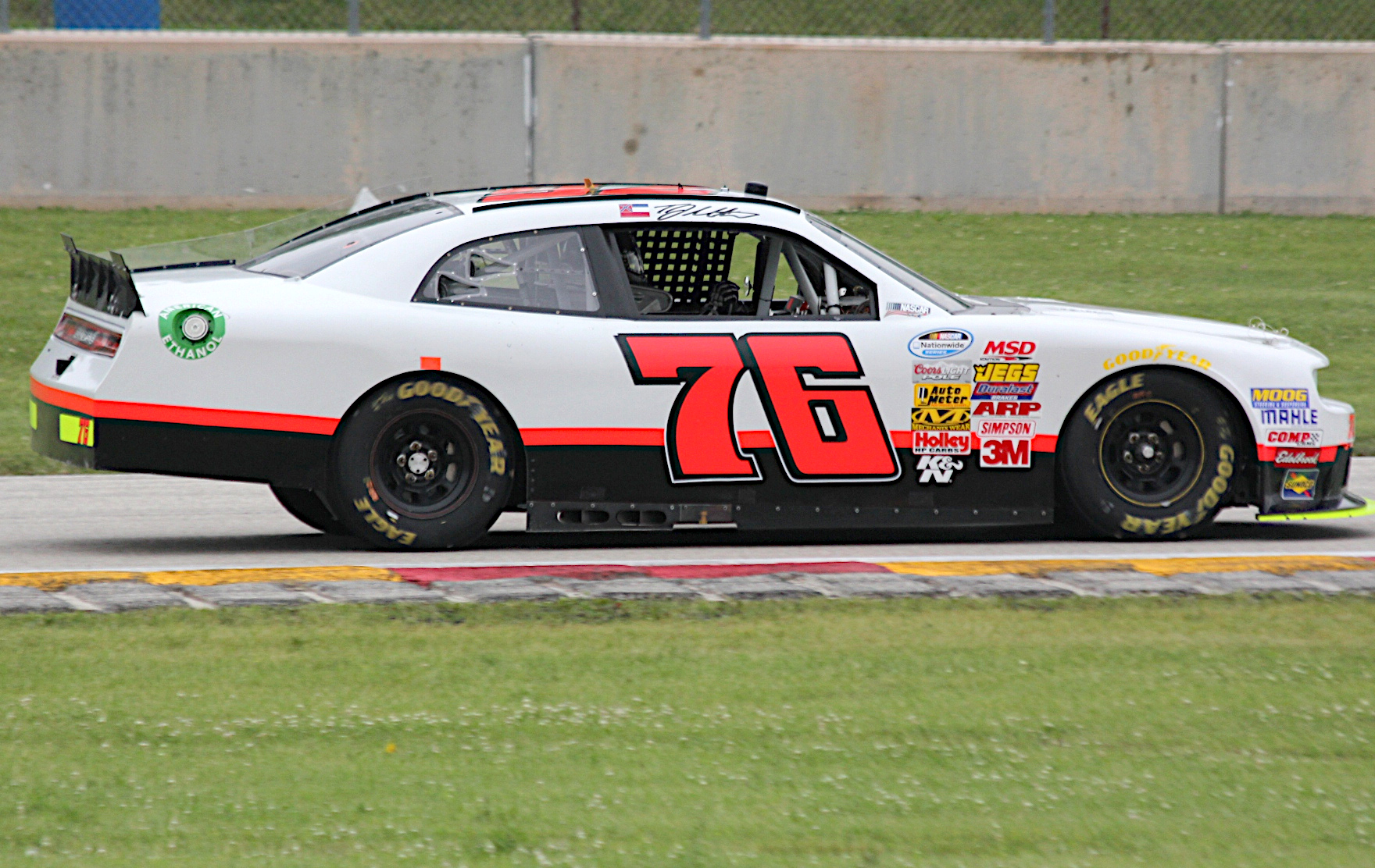 The passenger side of Tommy Joe Martins Nationwide car during the 2014 Gardner Denver 200 at Road America. Taken racing up the hill in turn 13.